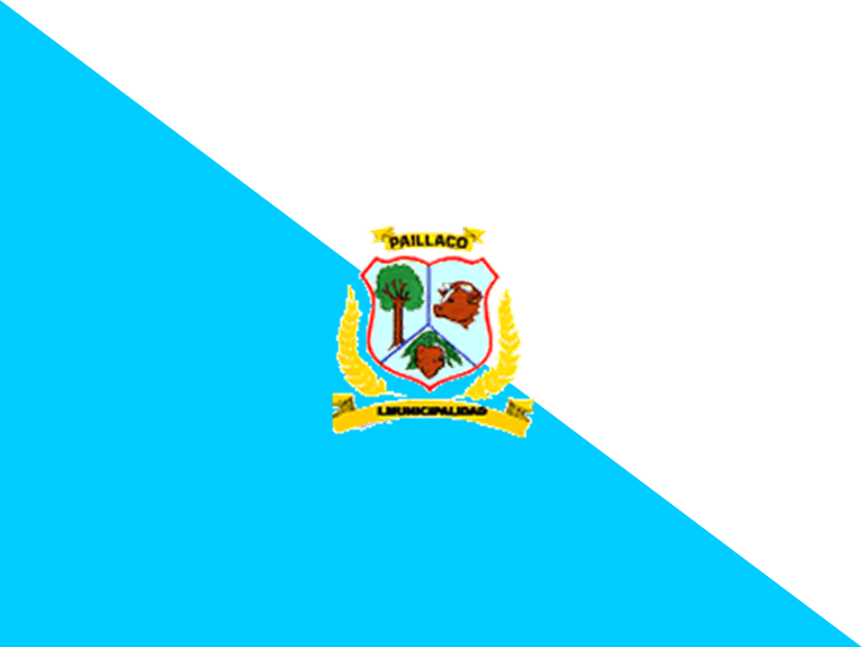 Flag of Paillaco commune (Chile)